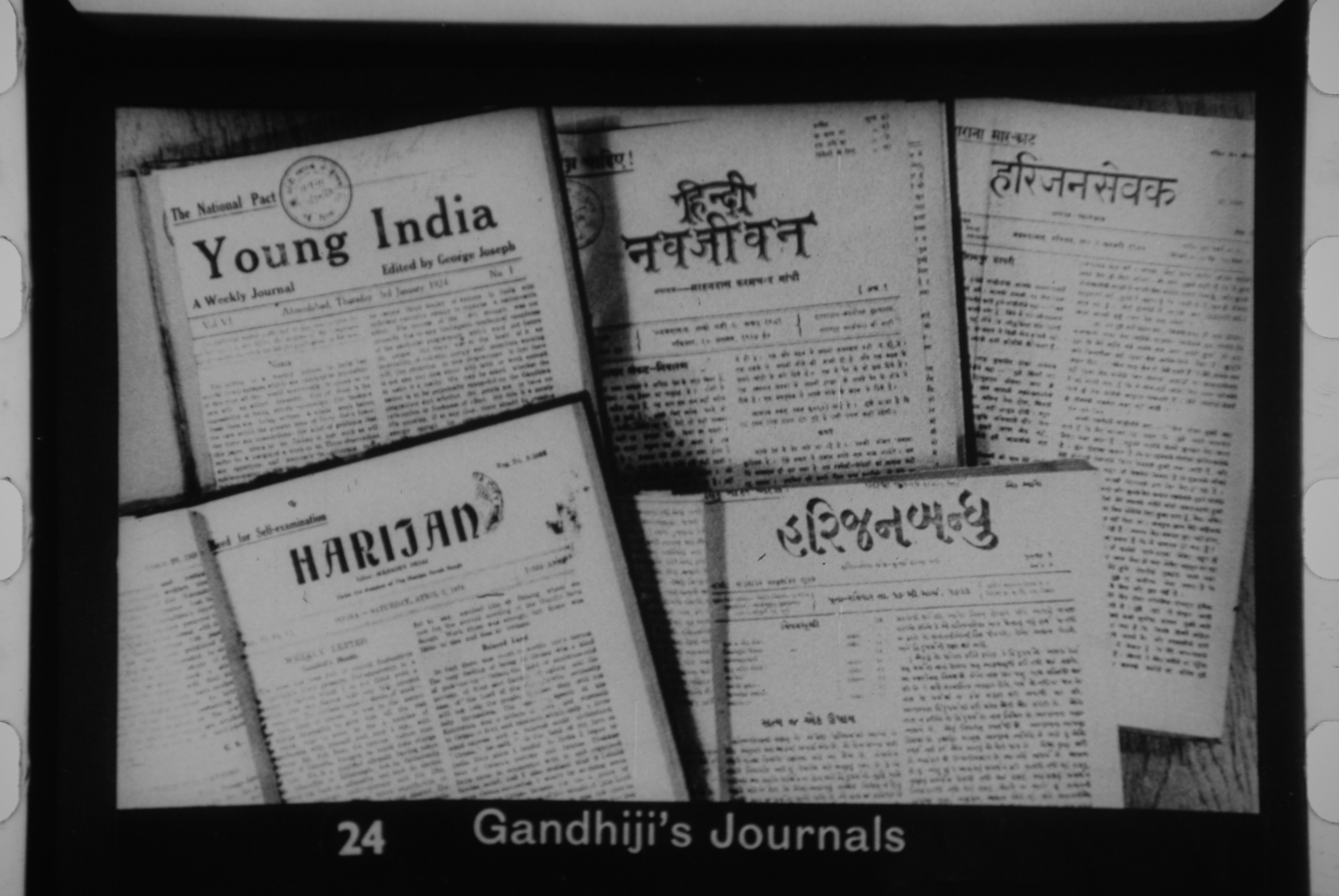 Gandhi's journals